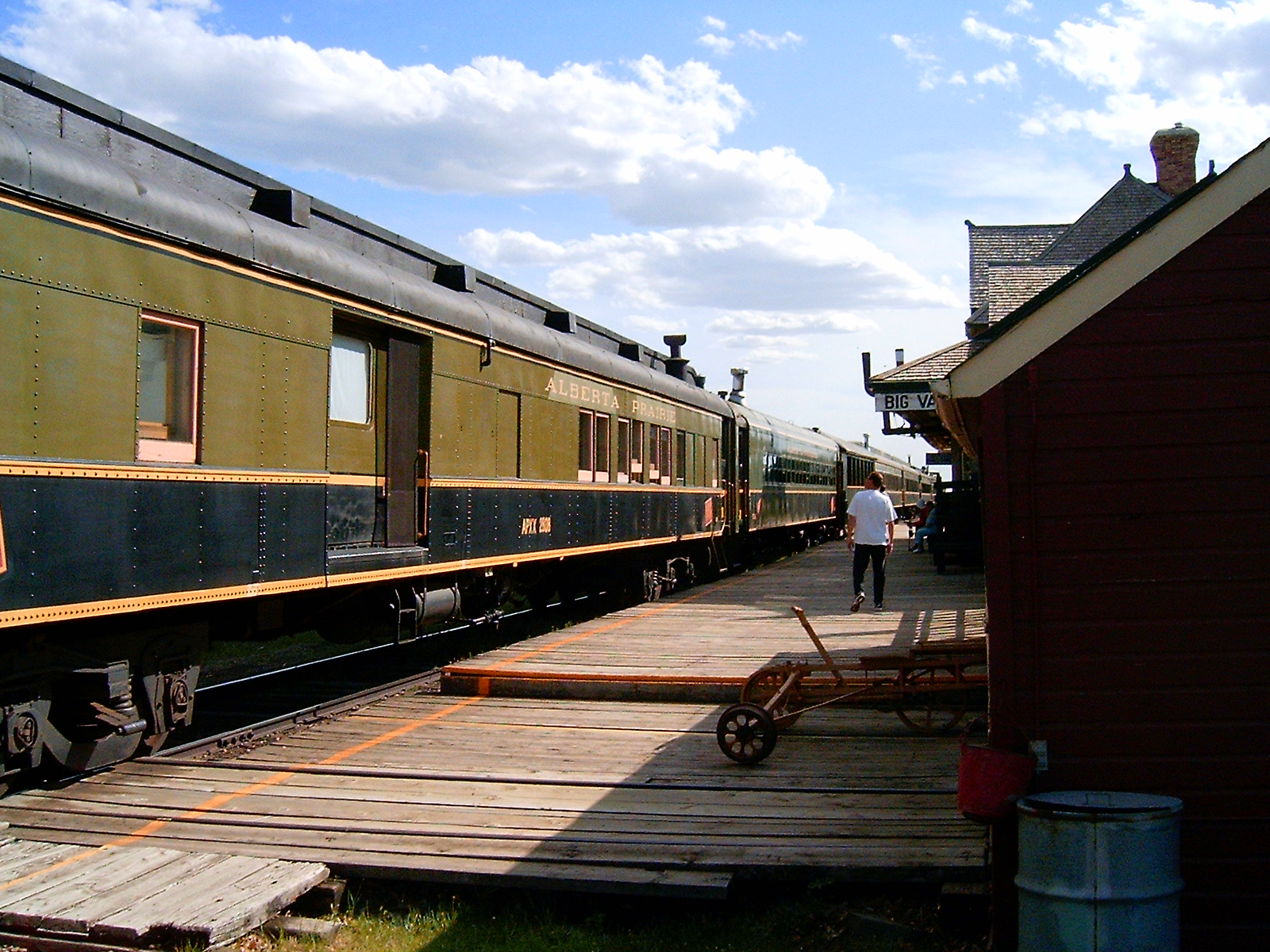 Alberta Prairie Railway Excursions cars